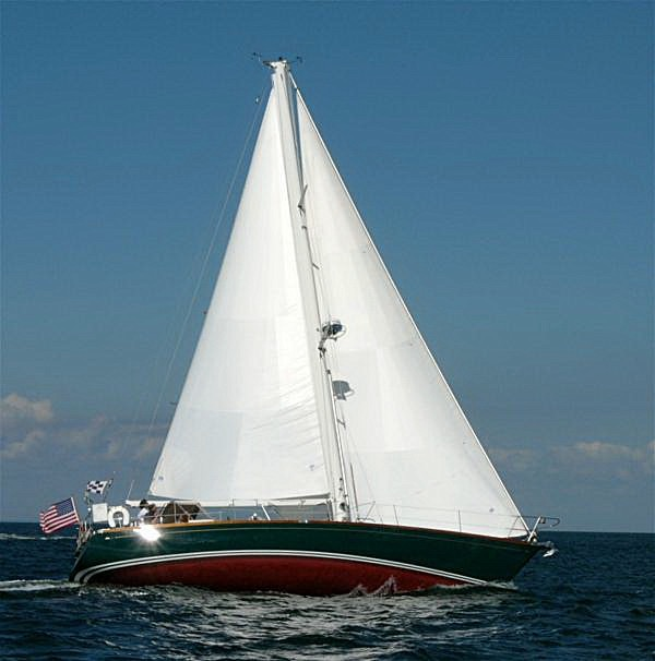 Photo of a Bristol sailboat healing under full sail.